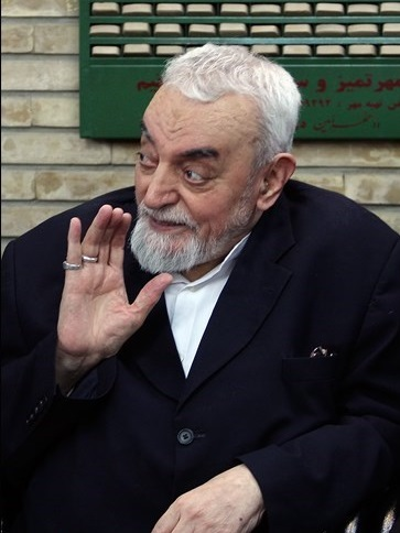 Habibollah Asgaroladi